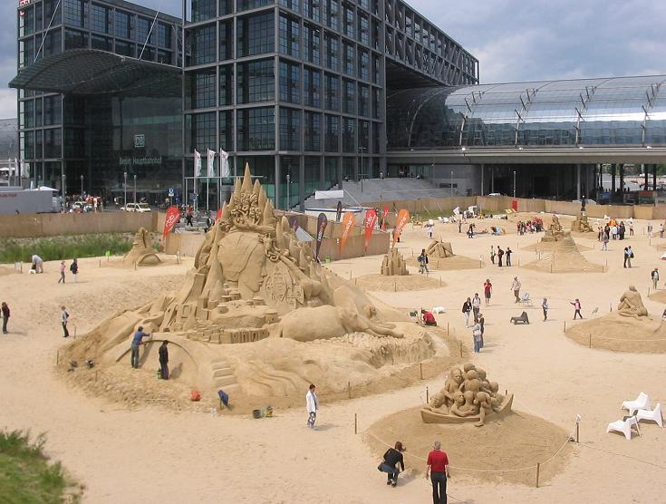 Sandsation 2007. Sand scuplture festival in Berlin beside the Hauptbahnhof.